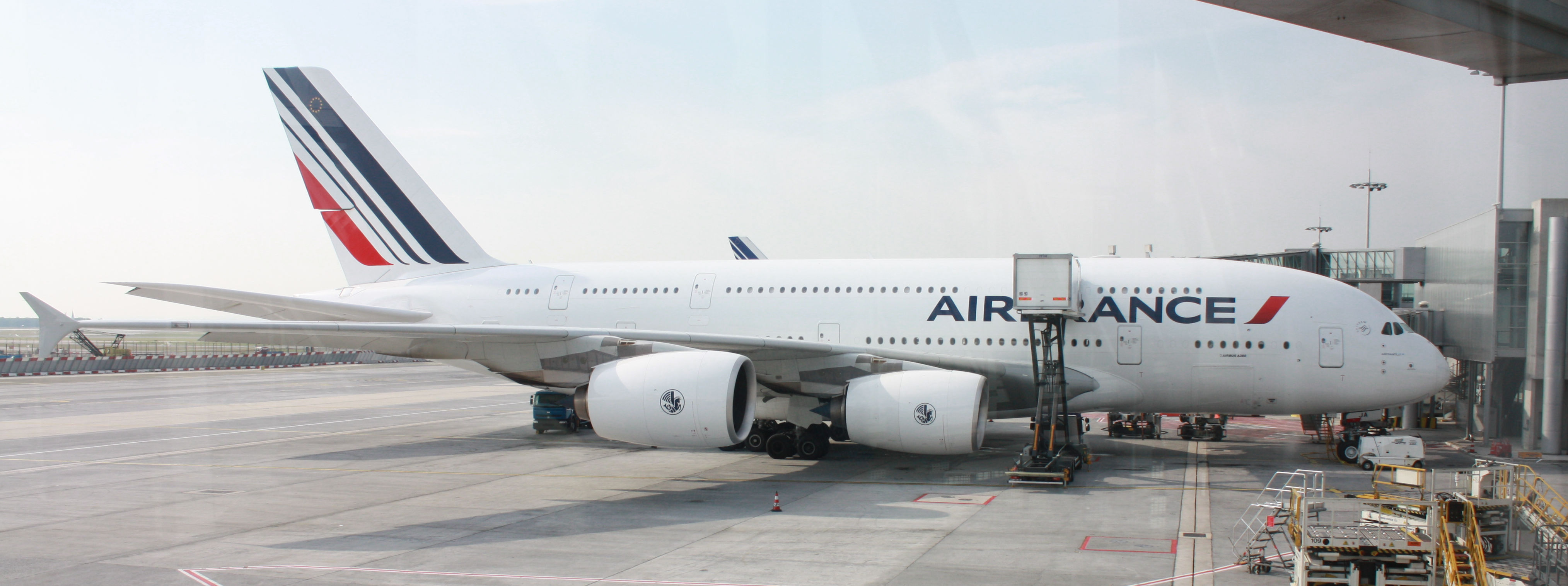 Air France Airbus A380 F-HPJA on ramp at Roissy Charles De Gaulle Airport in Paris, France.